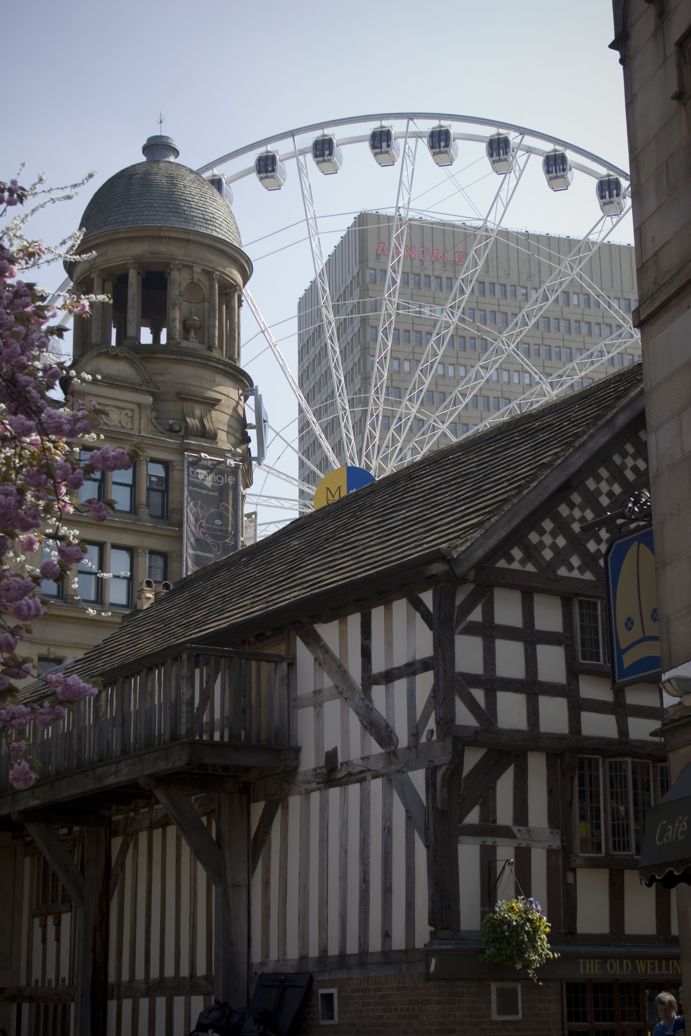 The Corn Exchange, Shambles Square, The Manchester Wheel, and the Arndale Centre